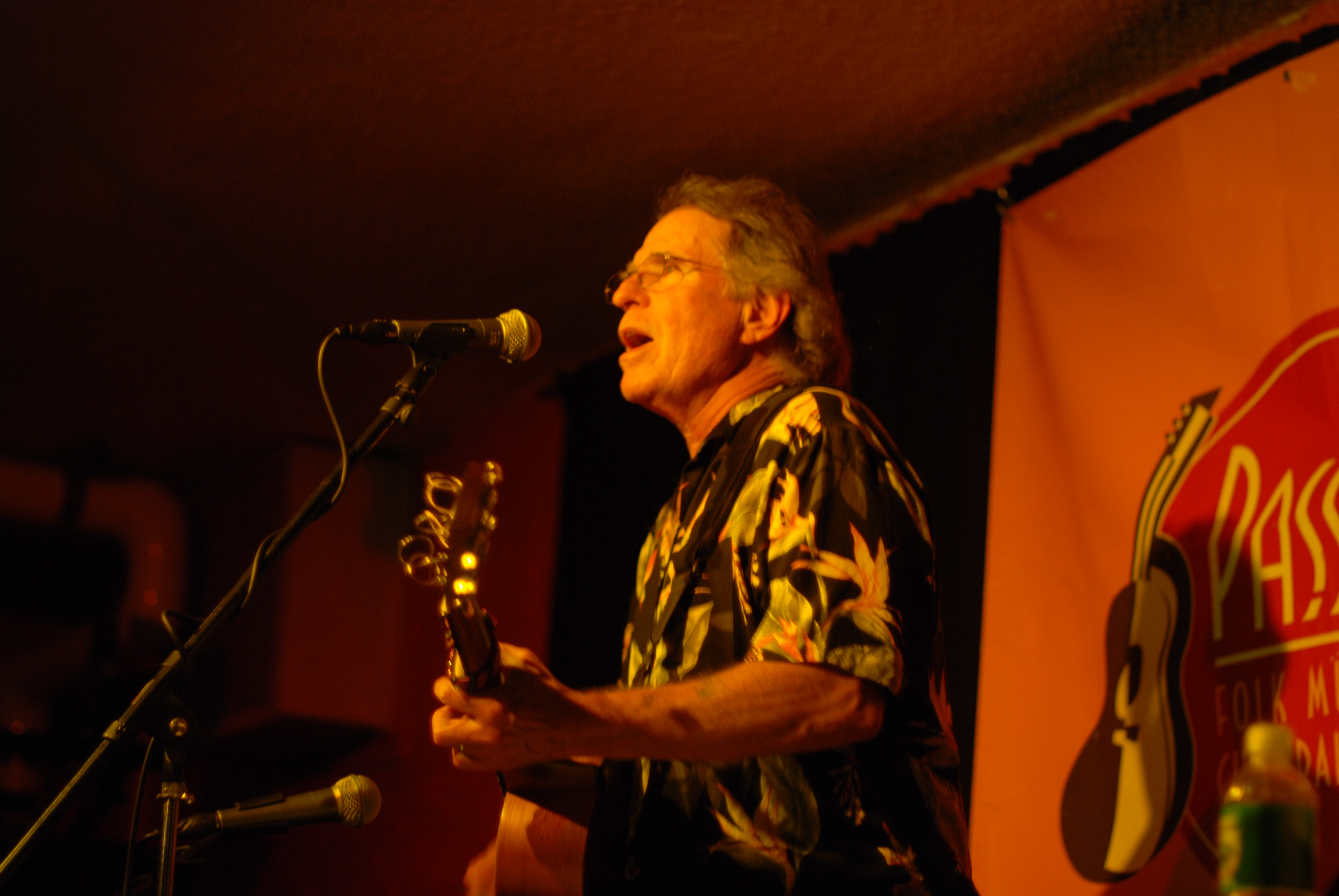 Country Joe's Tribute To Woody Guthrie Song, spoken word.